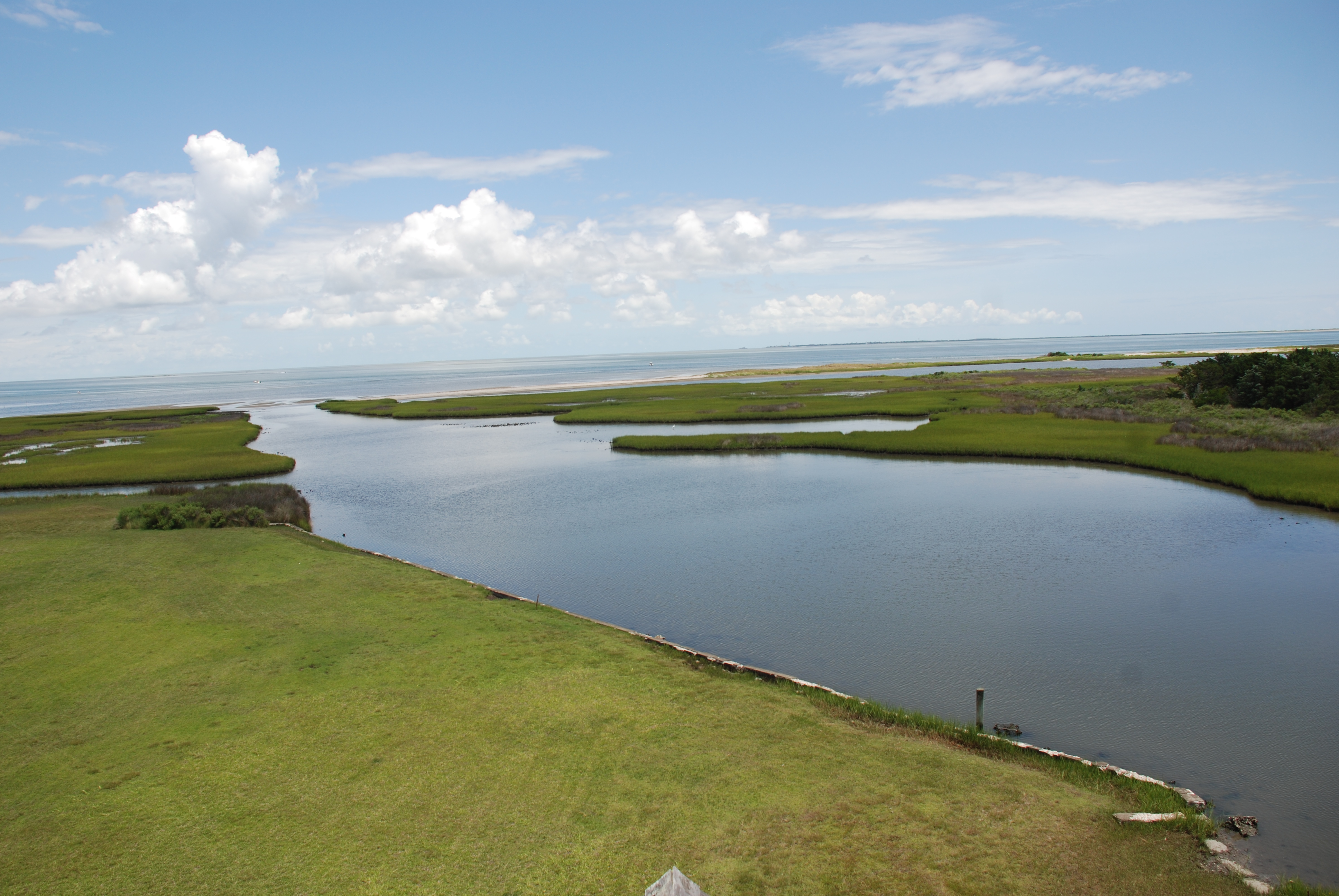 Portsmouth, North Carolina an abandoned village on North Core Banks: view from the lookout tower of the U.S. Life-Saving Station towards Coast Guard creek and Ocracoke Inlet.